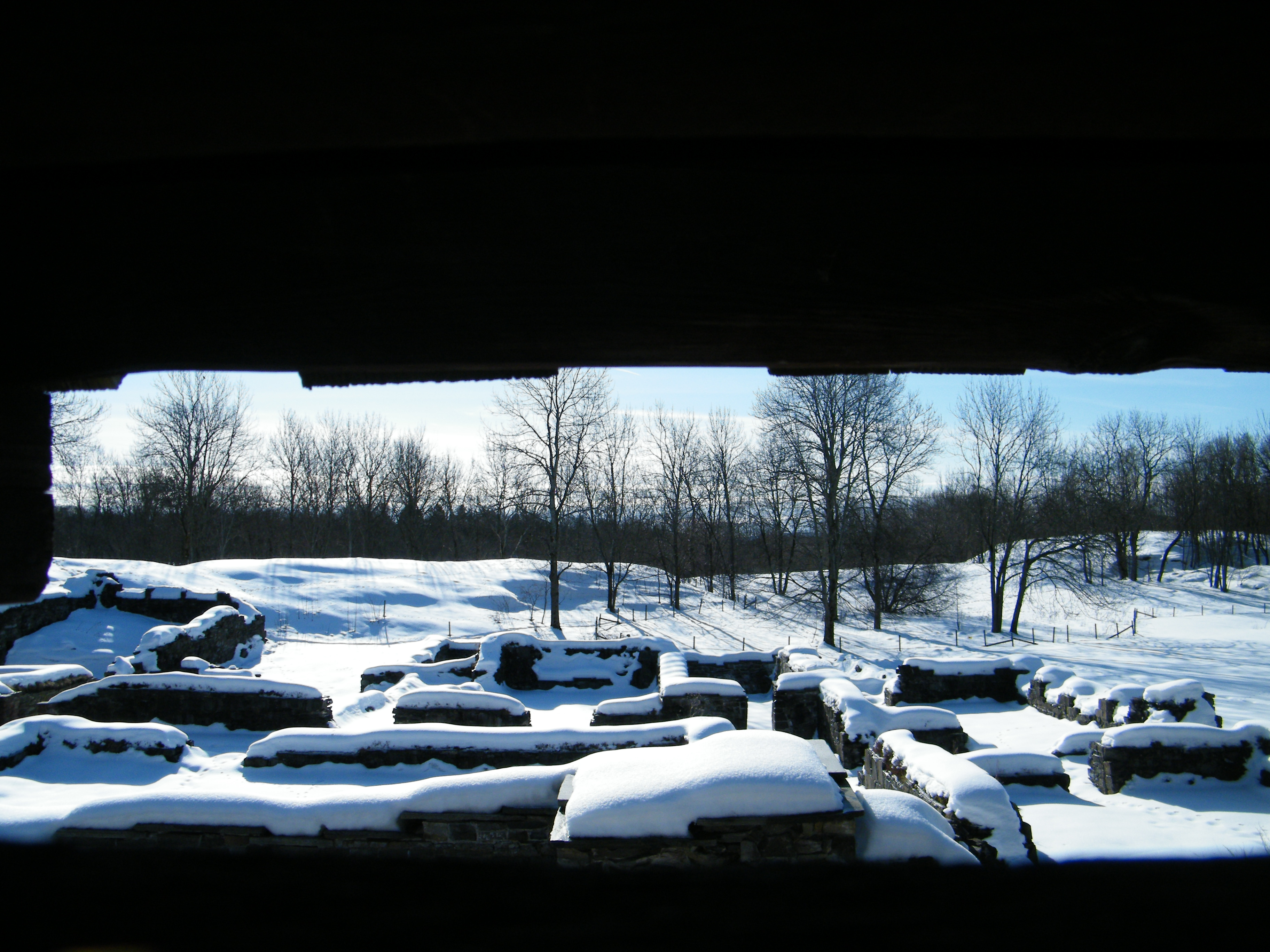 Ruins of the Hovedøya Abbey in the Oslo fjord during winter